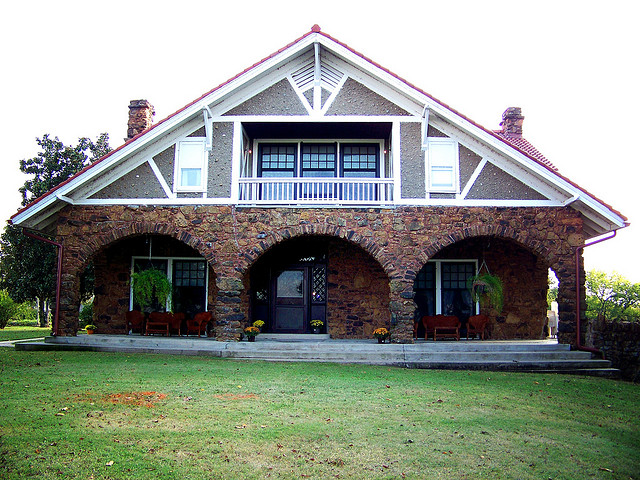 The Pawnee Bill Ranch house. The house sets atop Blue Hawk Peak in Pawnee, Oklahoma.